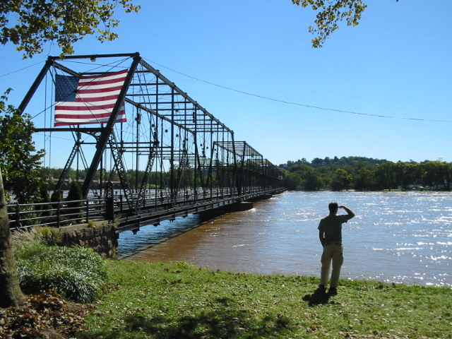 The Walnut Street Bridge during the Flood of 2004.